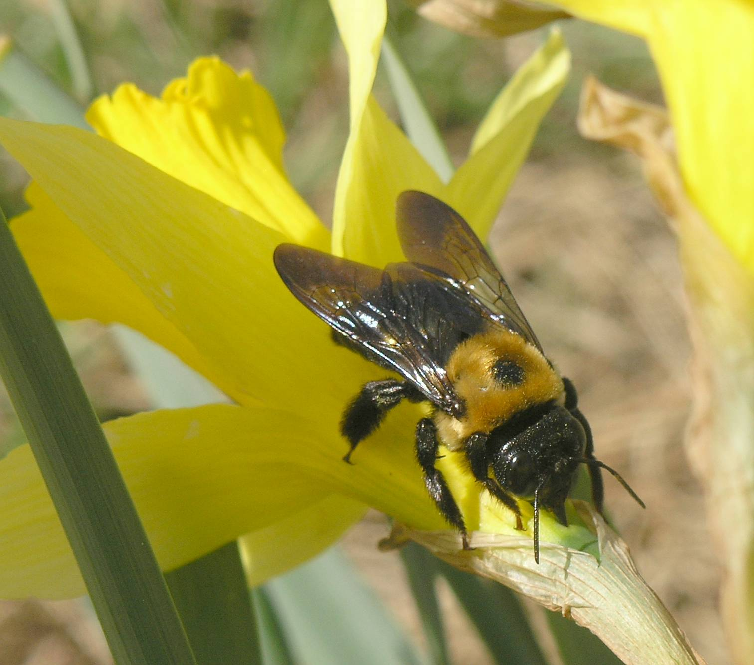 Flickr description: "The Eastern Carpenter Bee is too large to get down inside the daffodil and gather nectar. She slices a hole in the flower's corolla and secures nectar that way instead, a practice called 'nectar robbing'."